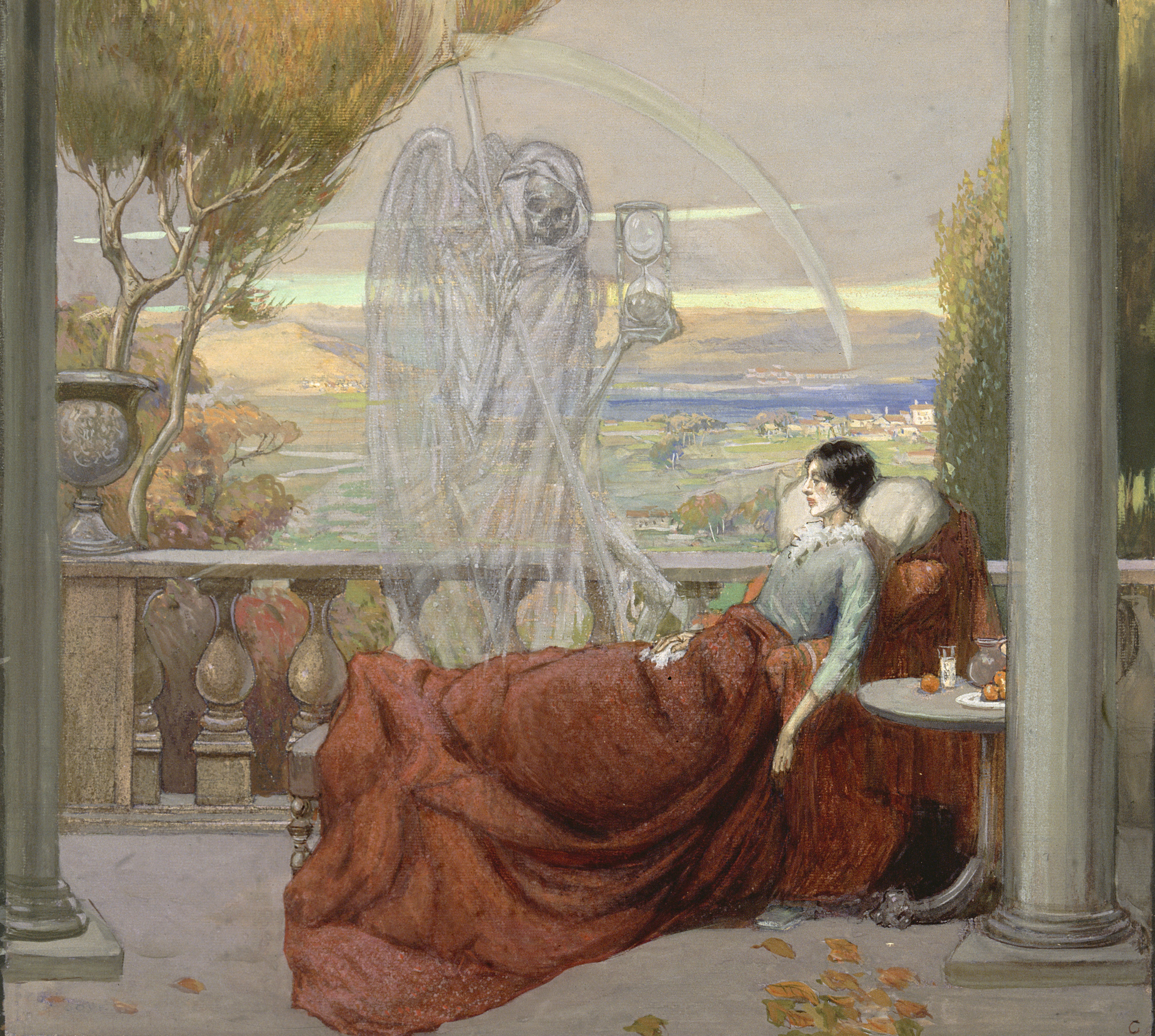 A sickly female invalid sits covered up on a balcony overlooking a beautiful view, death (a ghostly skeleton clenching a scythe and an hourglass) is standing next to her; representing tuberculosis. Watercolour by R. Cooper. Iconographic Collections Keywords: Richard Tennant Cooper